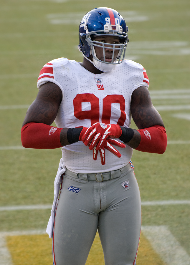 New York Giants vs. Green Bay Packers in the NFC Divisional Playoff Game at Lambeau Field on January 15, 2012. Photo by Mike Morbeck.